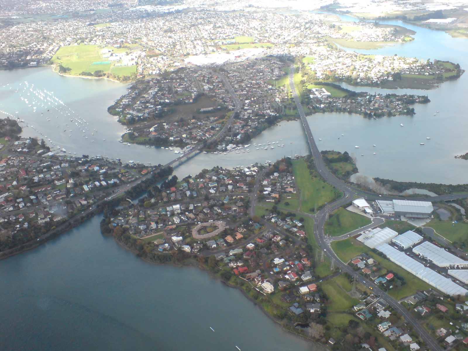 The bridges over the Tamaki River, an estuary between Auckland City and Manukau City in New Zealand. Looking eastwards from a light plane to Great Barrier Island.